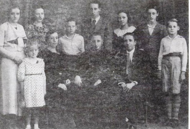 family of Lamamie de Clairac